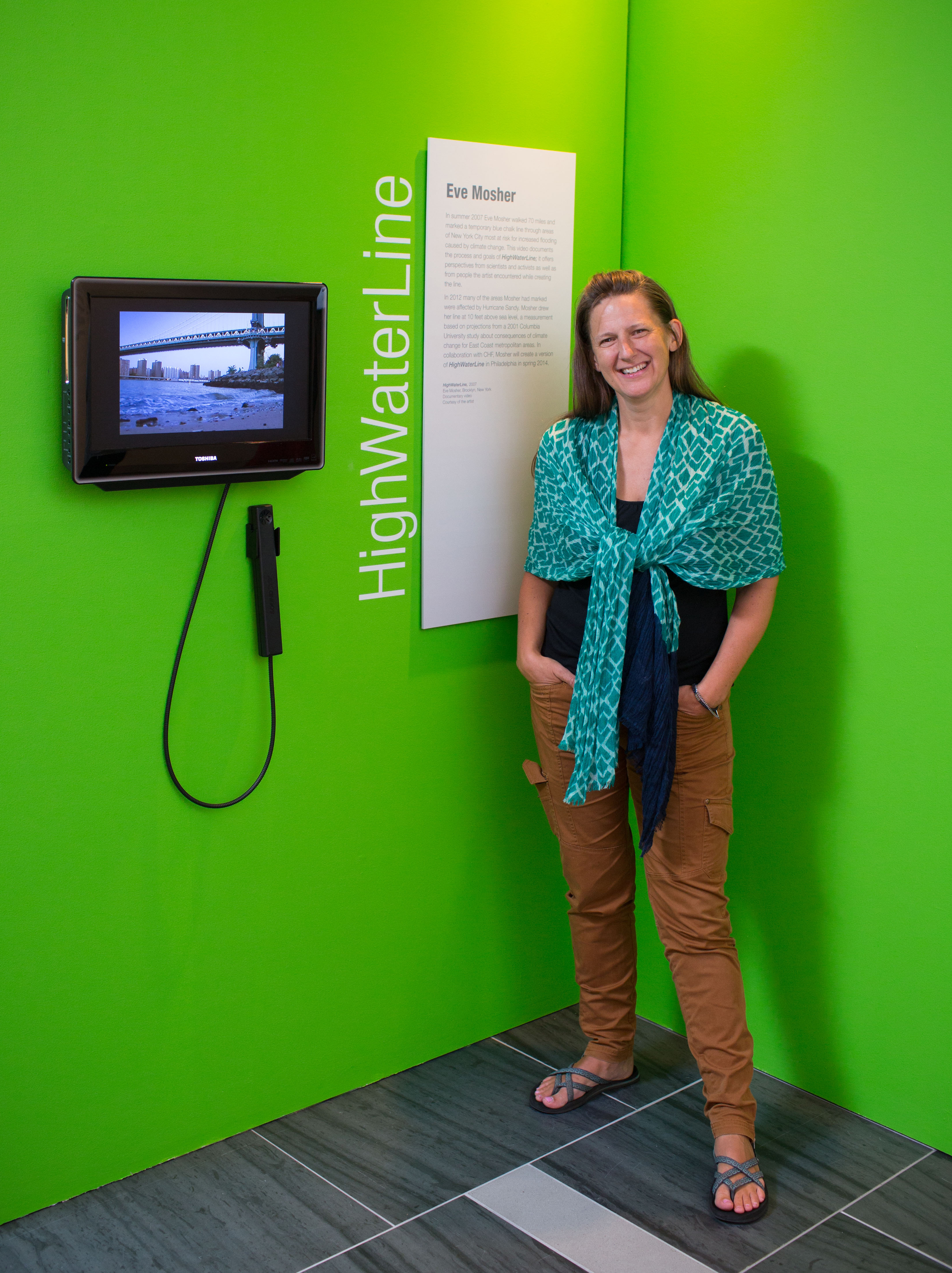 Photograph of Eve Mosher, artist, creator of "HighWaterLine", a performance piece, at the opening of the 2013 Sensing Change exhibit at the Chemical Heritage Foundation, Philadelphia, PA, USA, 27 June 2013.